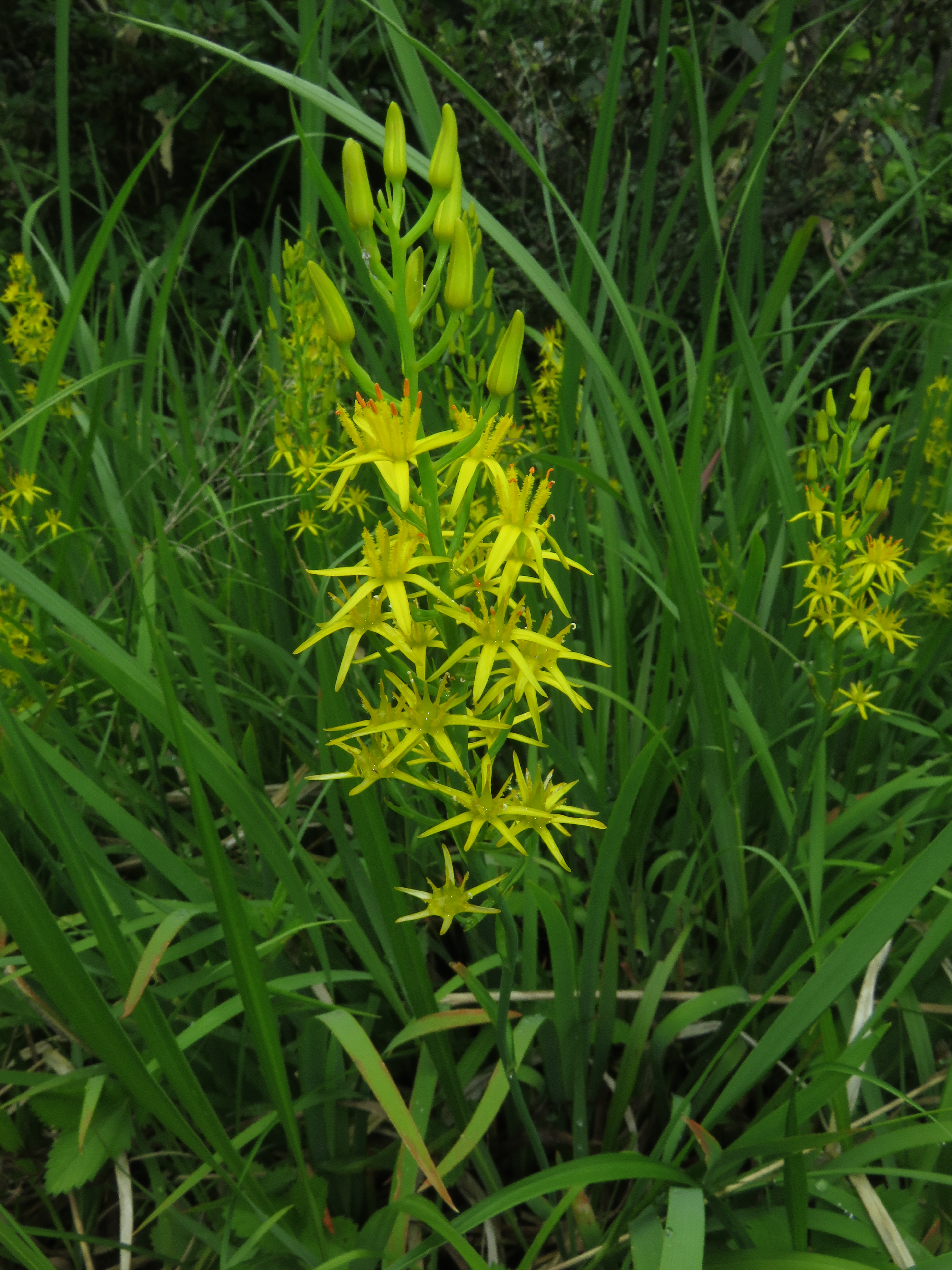 Narthecium asiaticum, Aizu area, Fukushima pref., Japan